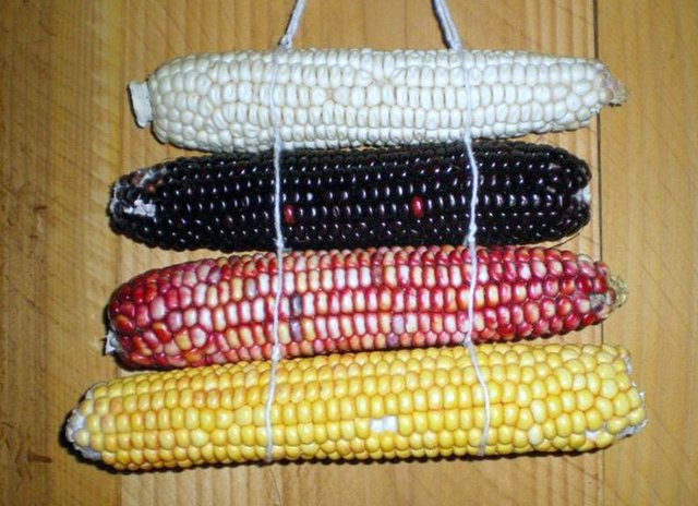 Hopi Corn cultivars